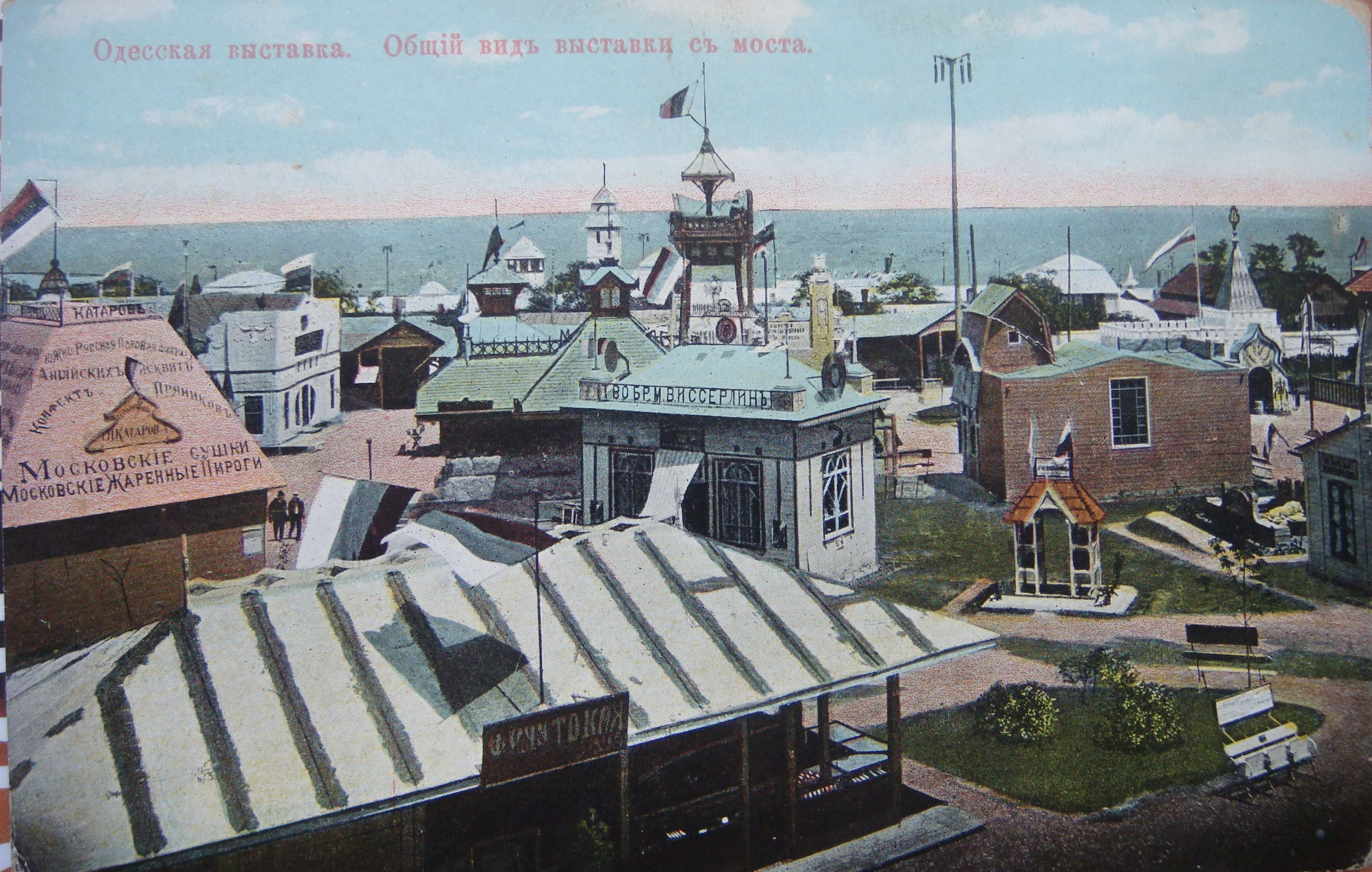 Old Carte Postale (Open Letter) issued in 1910 showed general view of Odessa Exposition